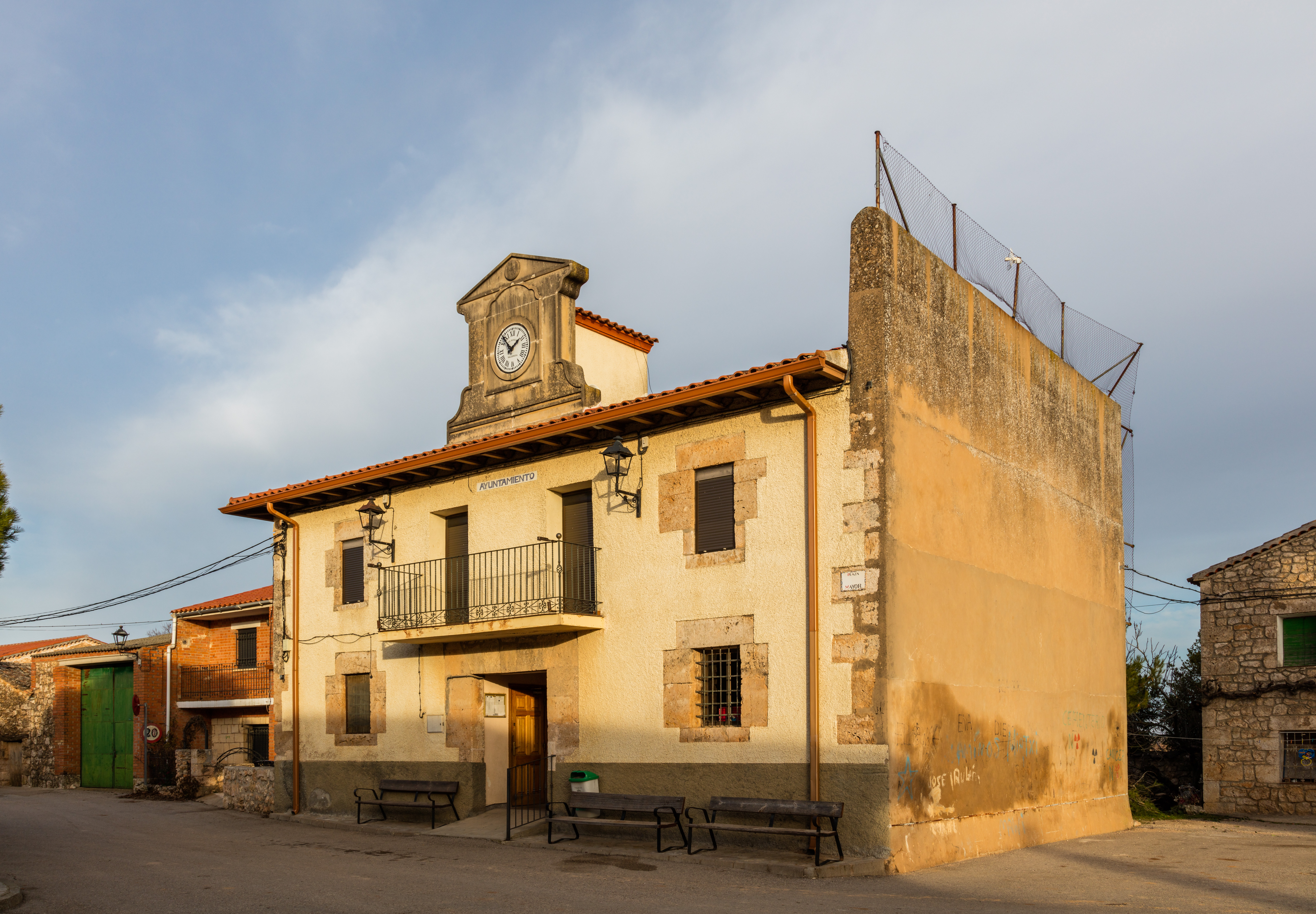 Town hall, Alaminos, Guadalajara, Spain